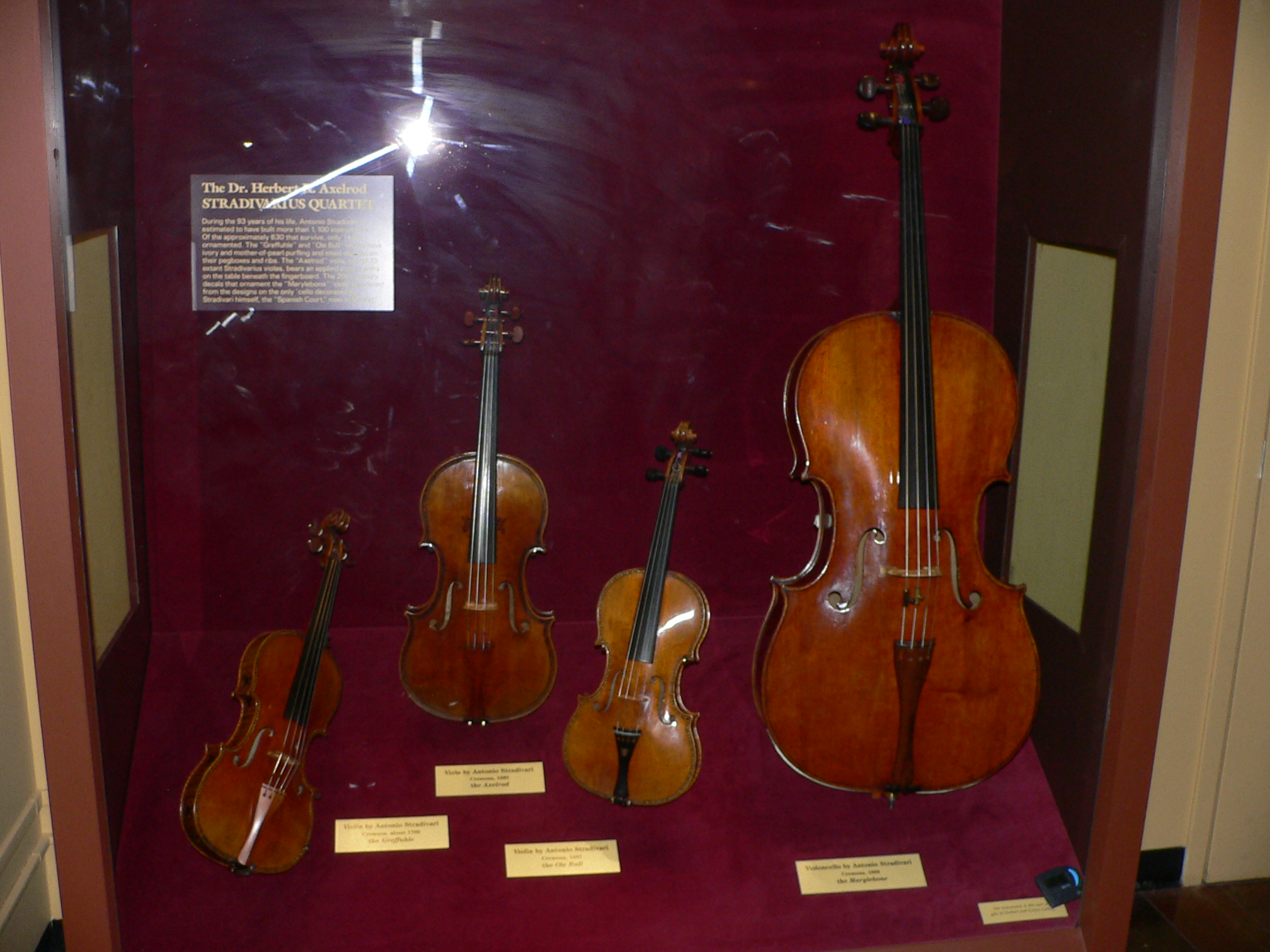 Four Stradivarius instruments. From left to right: Greffuhle violin, Axelrod viola, Ole Bull violin, Marylebone cello The Axelrod quartet of Stradivarius instruments, on display in the Smithsonian Institution National Museum of American History. From left to right: Greffuhle violin (1709), Axelrod viola (1695 or 1696), Ole Bull violin (1677), and Marylebone cello (1688) References Violin by Antonio Stradivari, 1709 (Greffuhle). . Cozio LLC. Viola by Antonio Stradivari, 1695 (Axelrod). . Cozio LLC. Violin by Antonio Stradivari, 1687 (Ole Bull). . Cozio LLC. Cello by Antonio Stradivari, 1688 (Cazenove, Marylebone). . Cozio LLC.